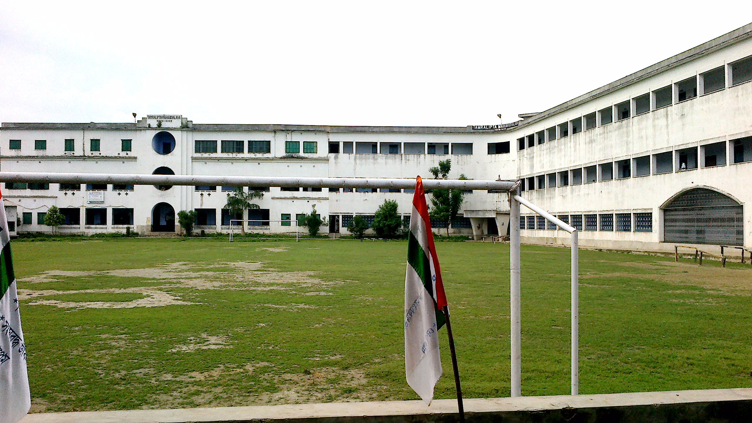 Seminar Held here only